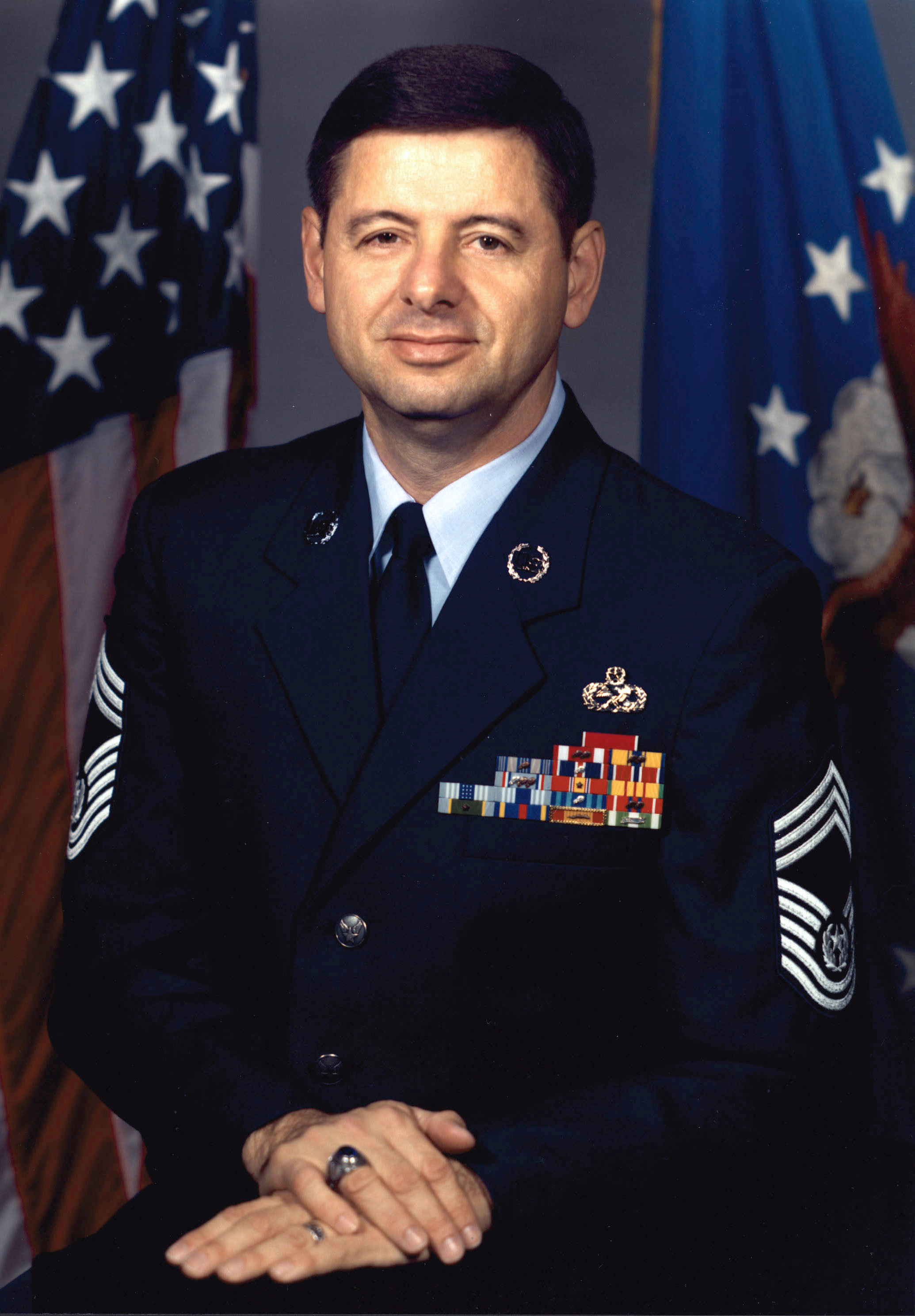 Chief Master Sergeant of the Air Force David J. Campanale was the 11th Chief Master Sergeant appointed to the highest noncommissioned officer (NCO) position in the United States Air Force.